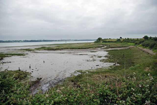 River Stour. This is a view of the river Stour from 1364419 . To find out more about this Essex Wildlife Trust Reserve go to